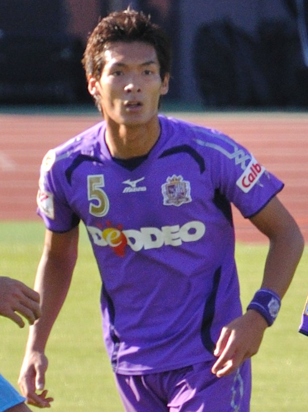 Tomoaki Makino head, cropped from DSC_7694